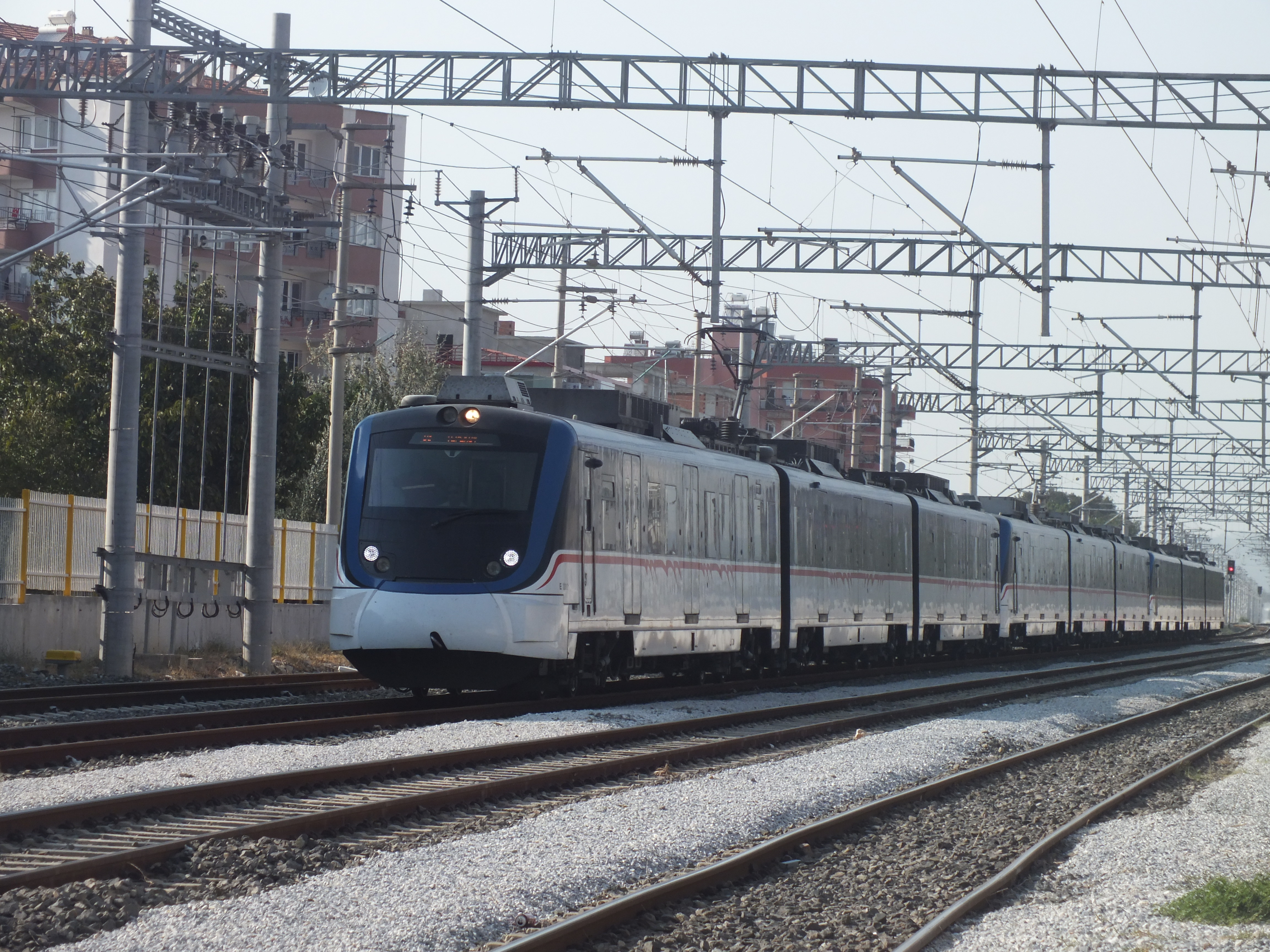 A Tepekoy-bound IZBAN train approaching Torbali station.